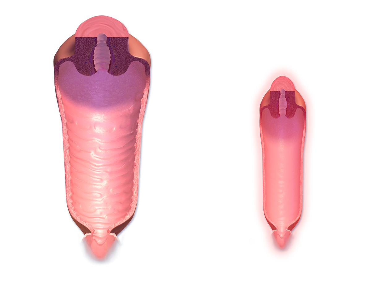 Vaginal Canal Normal vs. Menopause. Animation in the reference.[1] This image was donated by Blausen Medical.